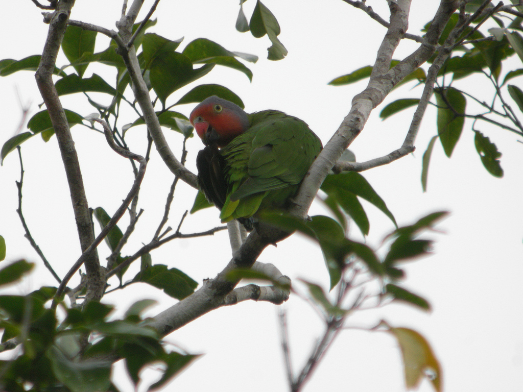 A male Red-cheeked Parrot in Papua New Guinea.